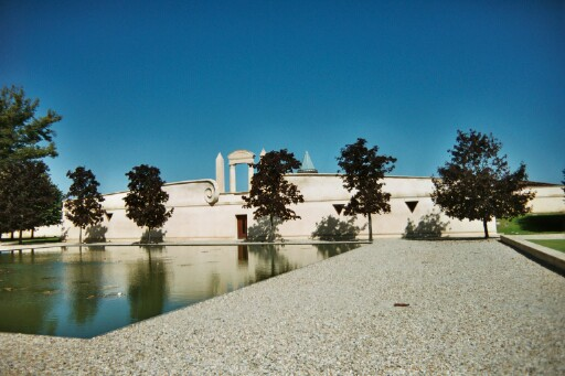 Château Pichon-Longueville-Baron in Pauillac